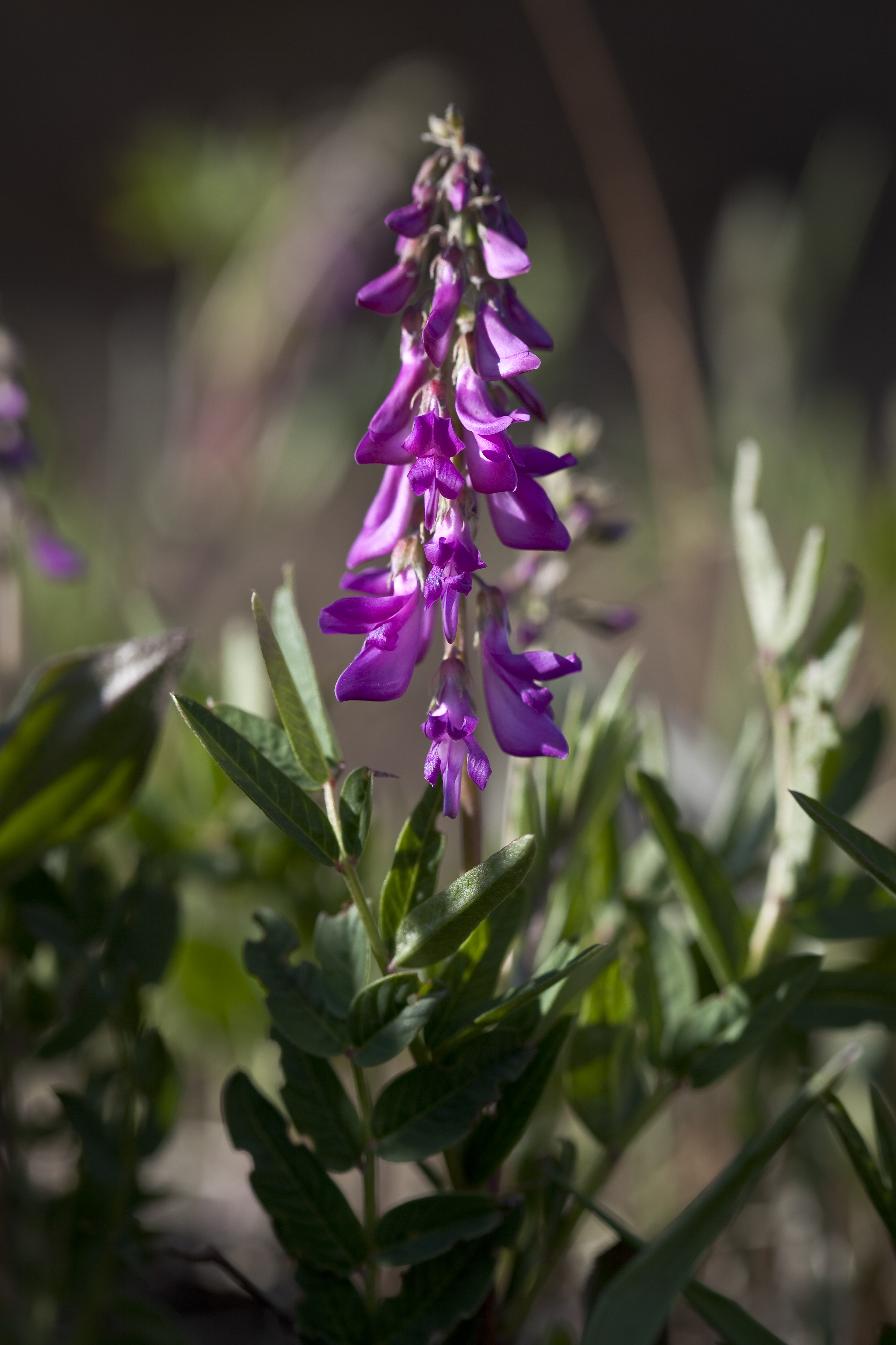 Hedysarum alpinum, Denali National Park and Preserve, AK, USA